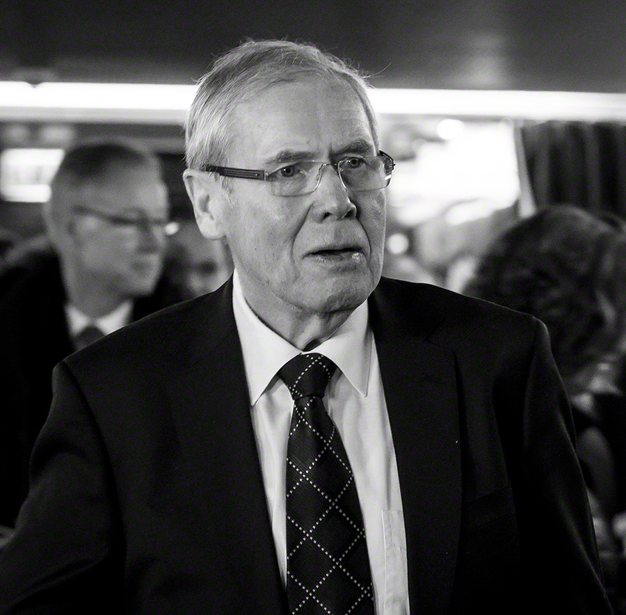 Gunnar Berge at Governor Øystein Olsen's annual address in February 2016